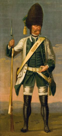 Grenadier of Regiment Los Rios, detail from "David Morier (1705?-1770), Grenadiers, Infantry Regiments 'Los Rios', 'Waldeck' and 'Wurmbrand' ", commissioned by William Augustus, Duke of Cumberland, ca 1748 [1]